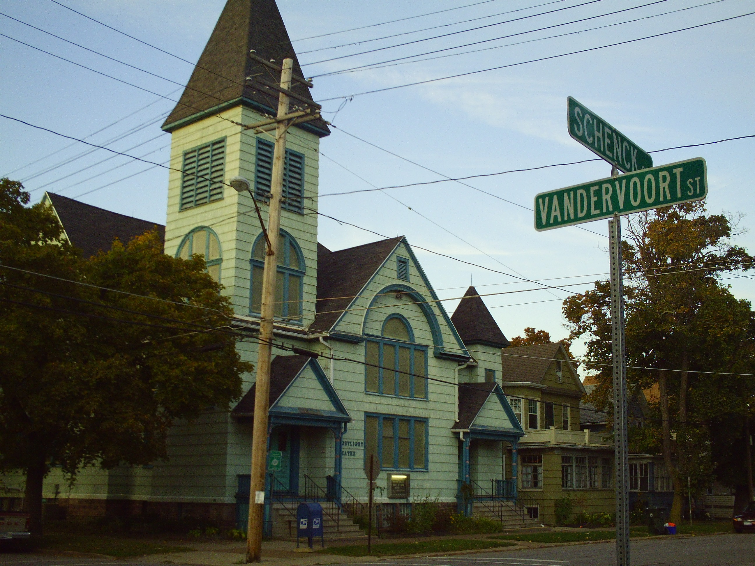 Picture of the Ghostlight Theatre, taken from across the Street at a diagonal